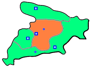 Savojbolagh county of the Tehran Province in Iran. Taken from: and editec by Mani Parsa.